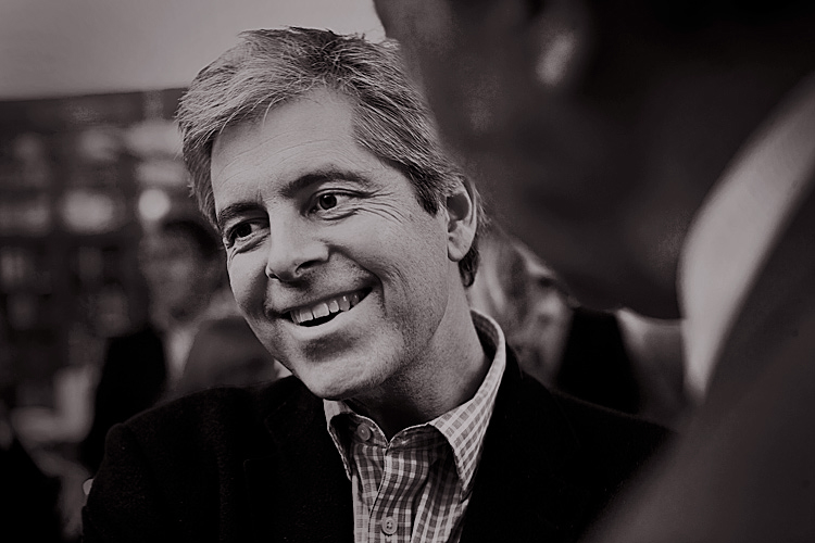 BBC Television presenter Justin Webb